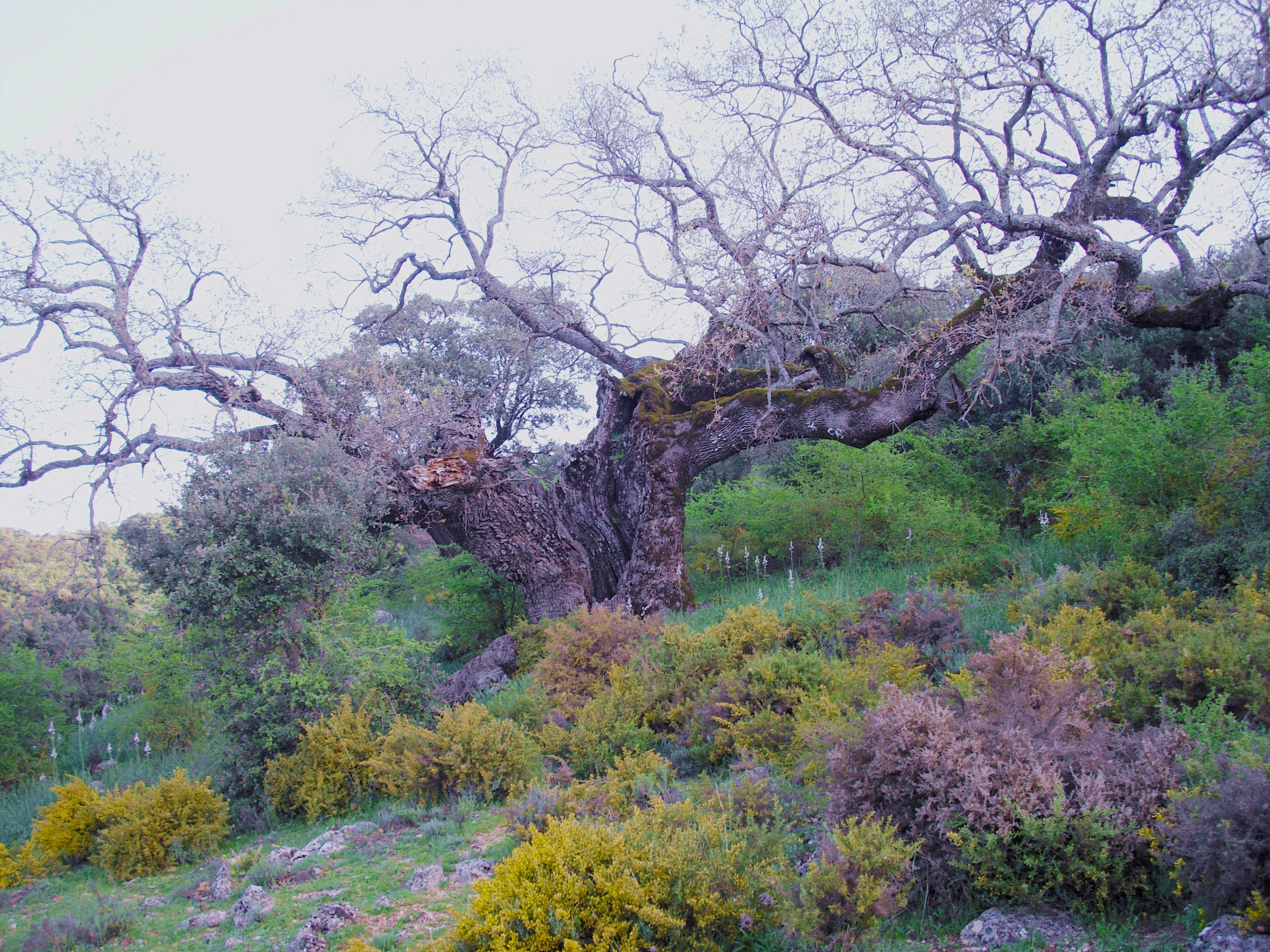 This is a photography of a Special Area of Conservation in Spain with the ID: ES6130002. Natura2000 entry, EEA entry